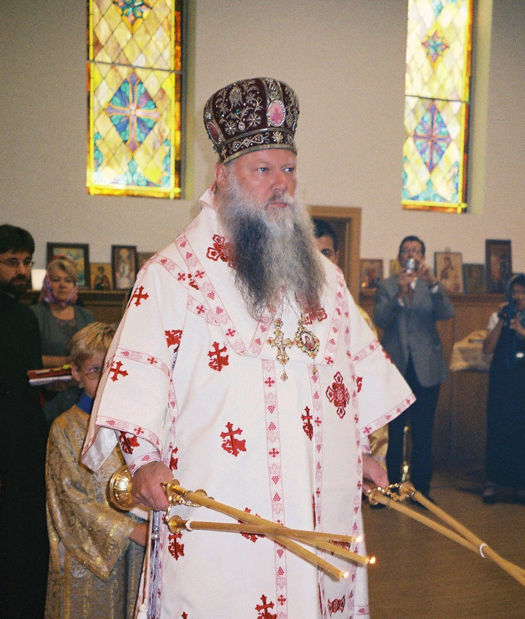 Bishop Peter (Loukianoff) at St. Vladimir Orthodox Church, Houston, Texas